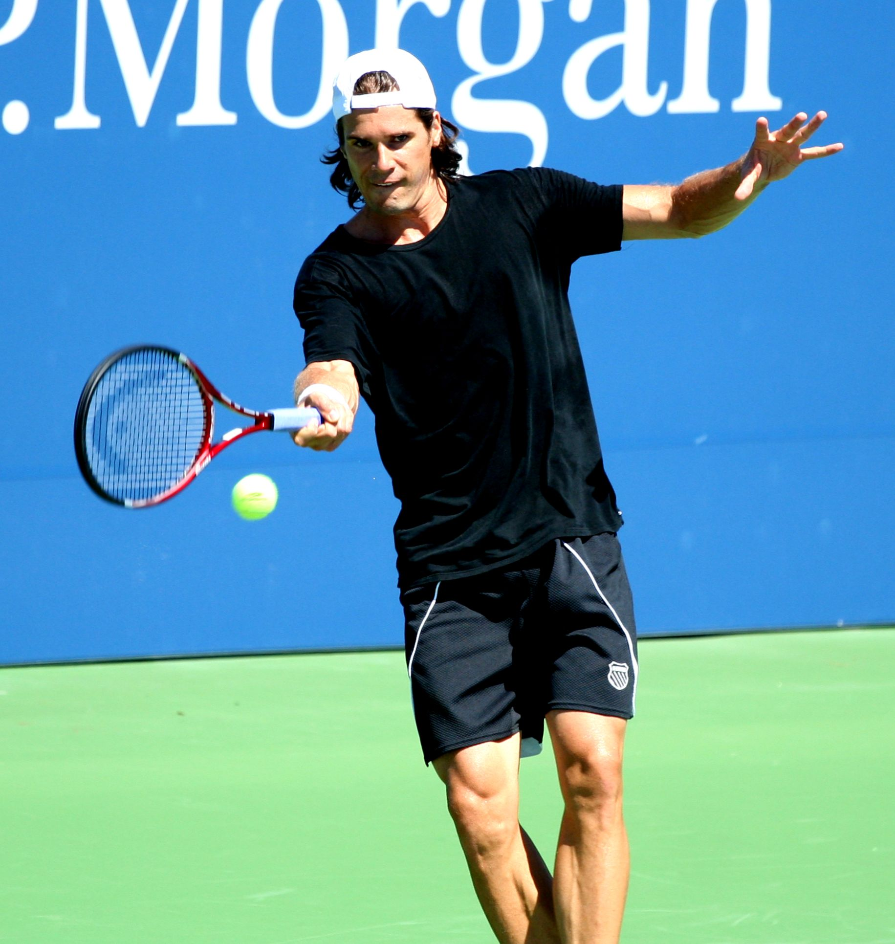 U.S. Open practice Monday, Aug. 29